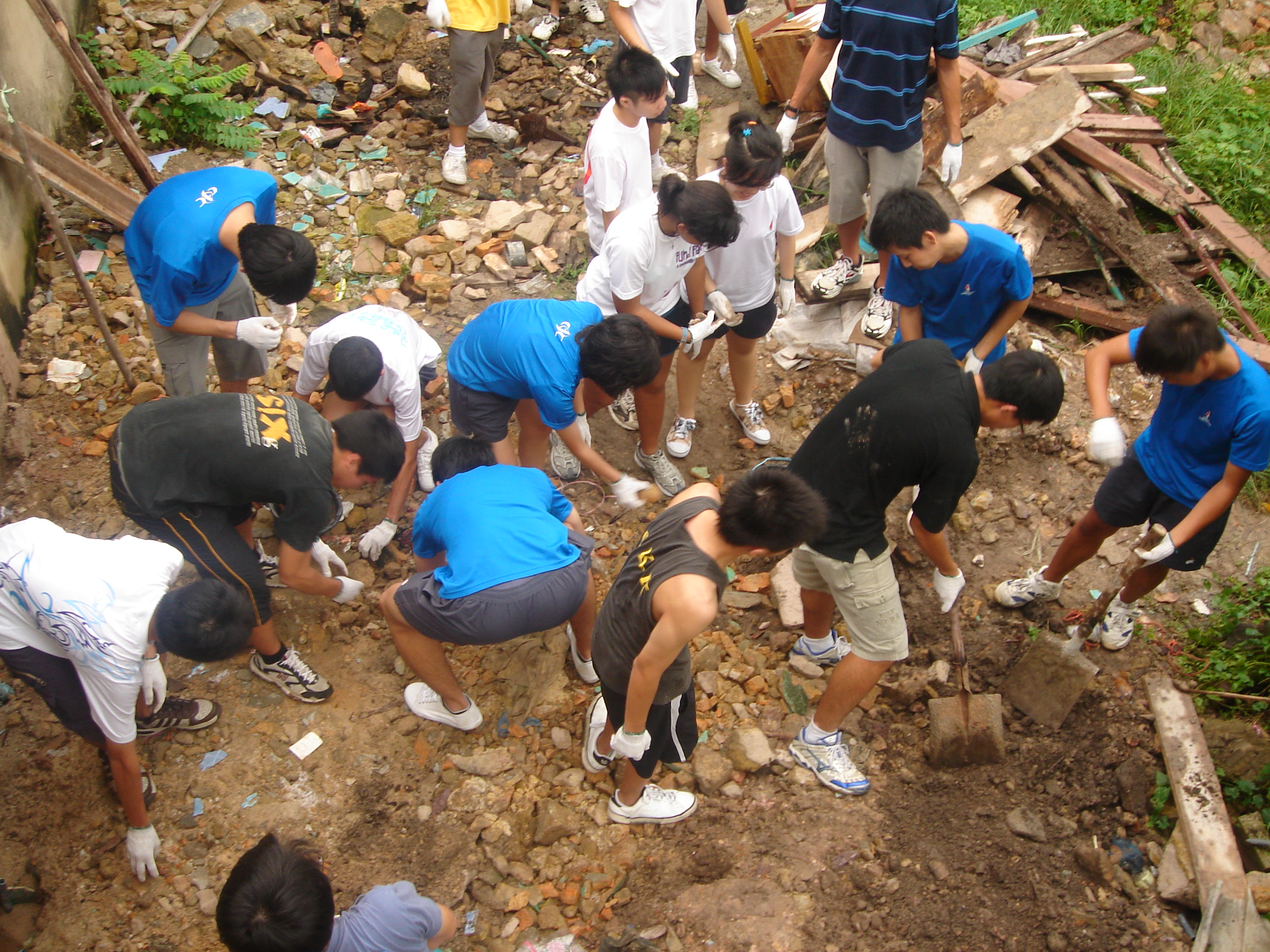 A Service Learning Project at Batam organised by MaxPac Travel for Catholic Junior College students